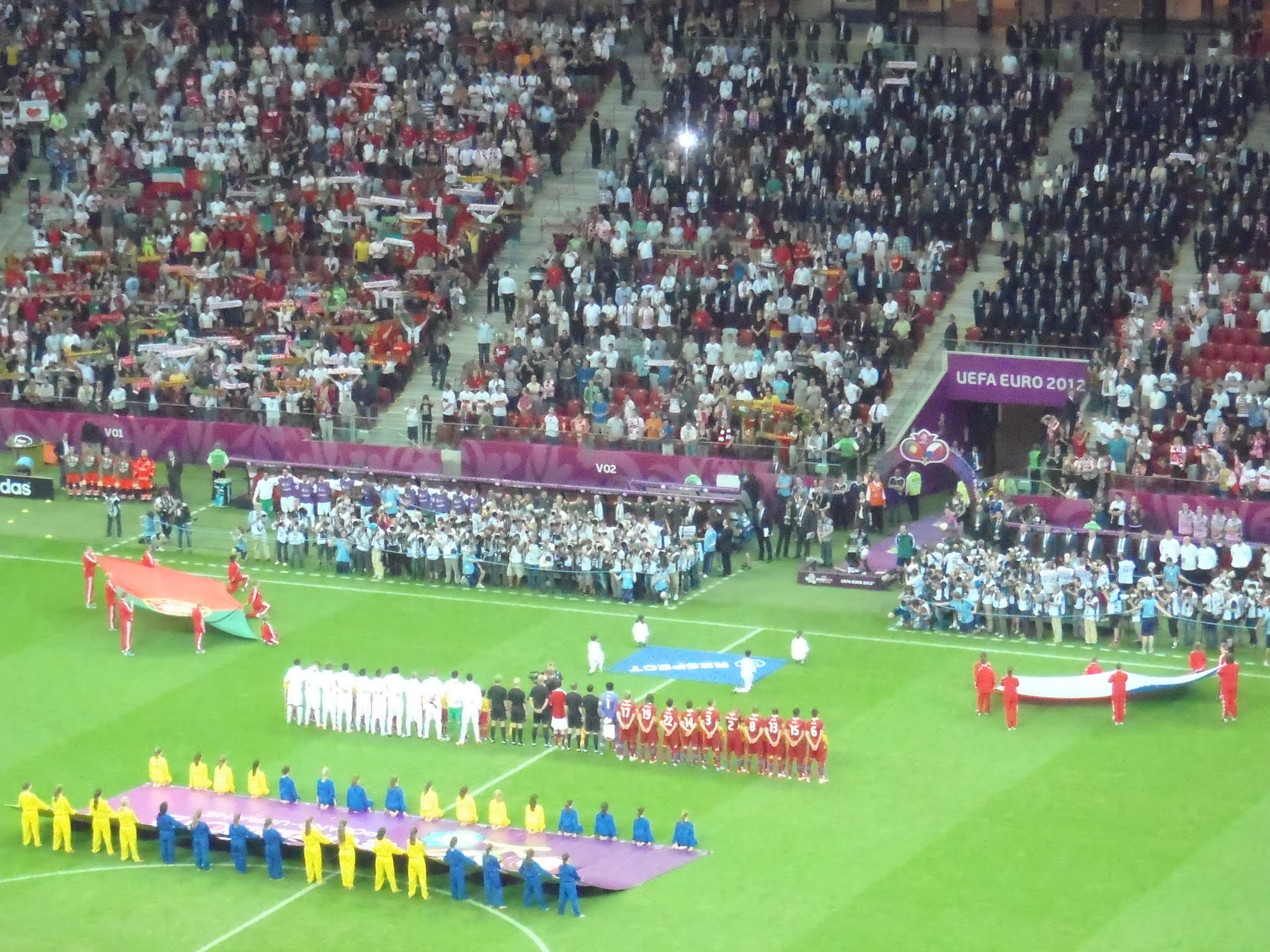 Czech Republic - Portugal, teams presentation, Euro 2012.